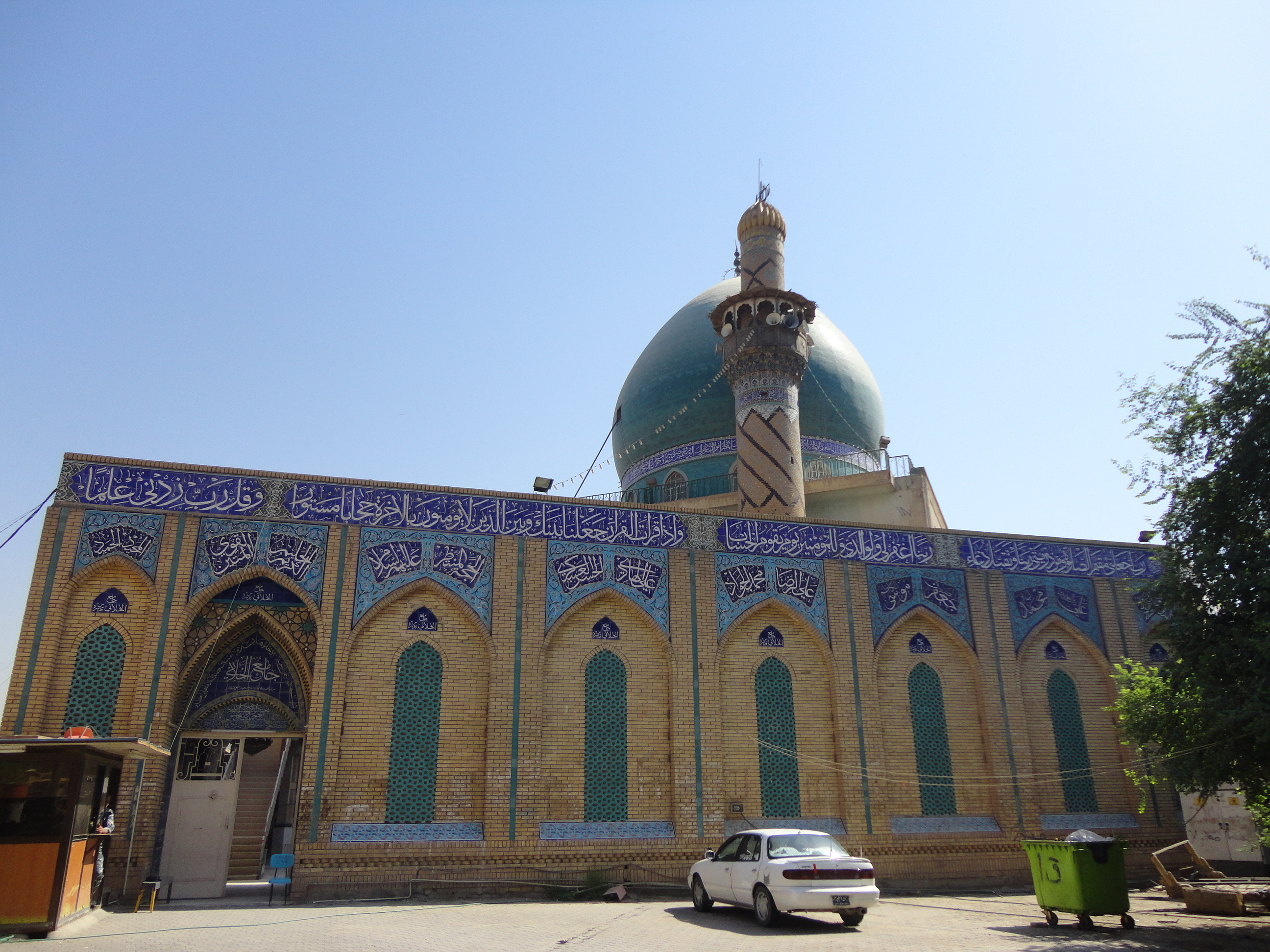 مرقد محمد بن عثمان بن سعيد العمري الخلاني